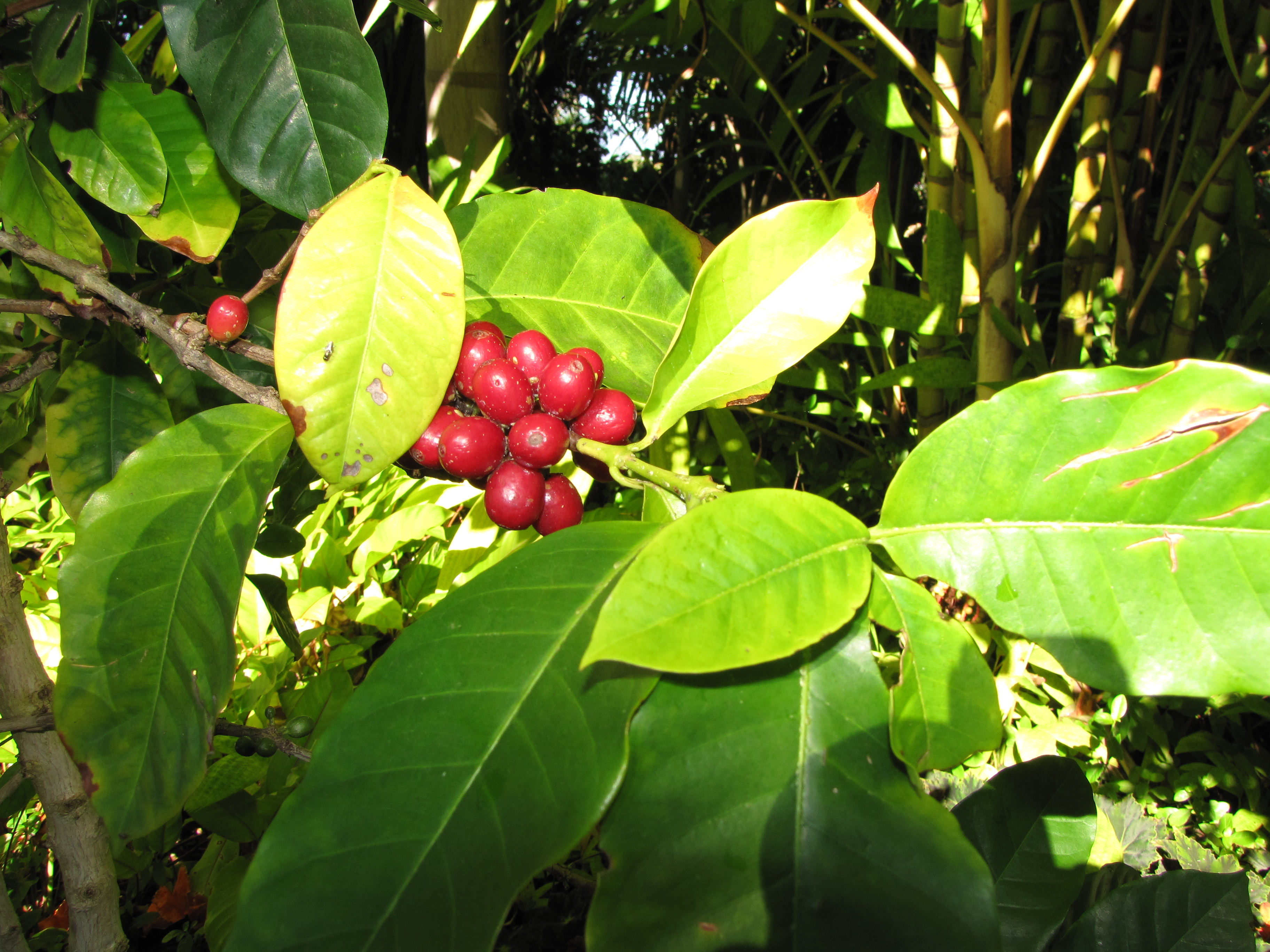 Coffea arabica (Arabian coffee) Fruit and leaves at Enchanting Floral Gardens of Kula, Maui, Hawaii. January 20, 2012 #120120-1776 - Image Use Policy